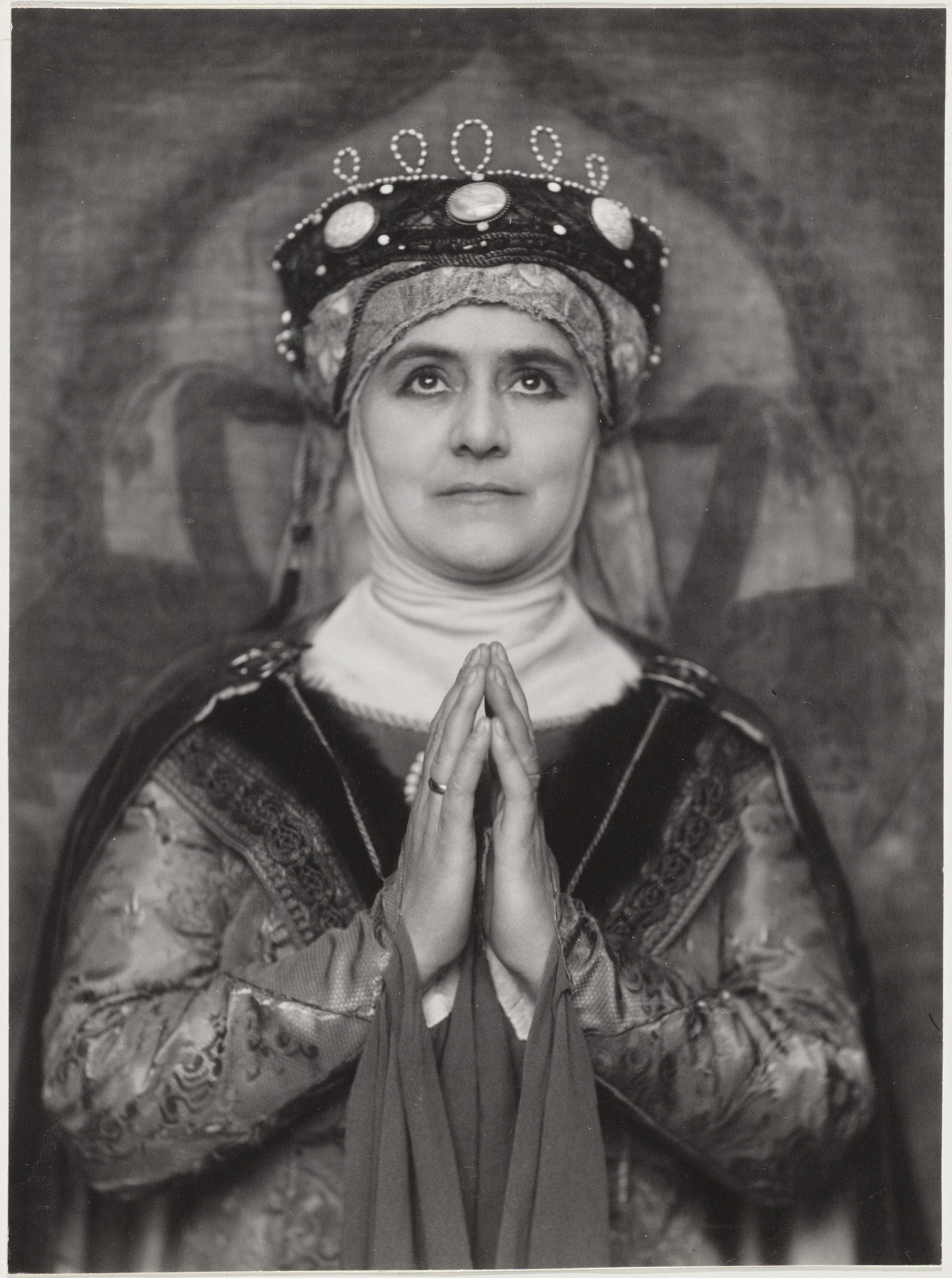 Photograph of Dutch actress Rika Hopper by Jacob Merkelbach (1877-1942)